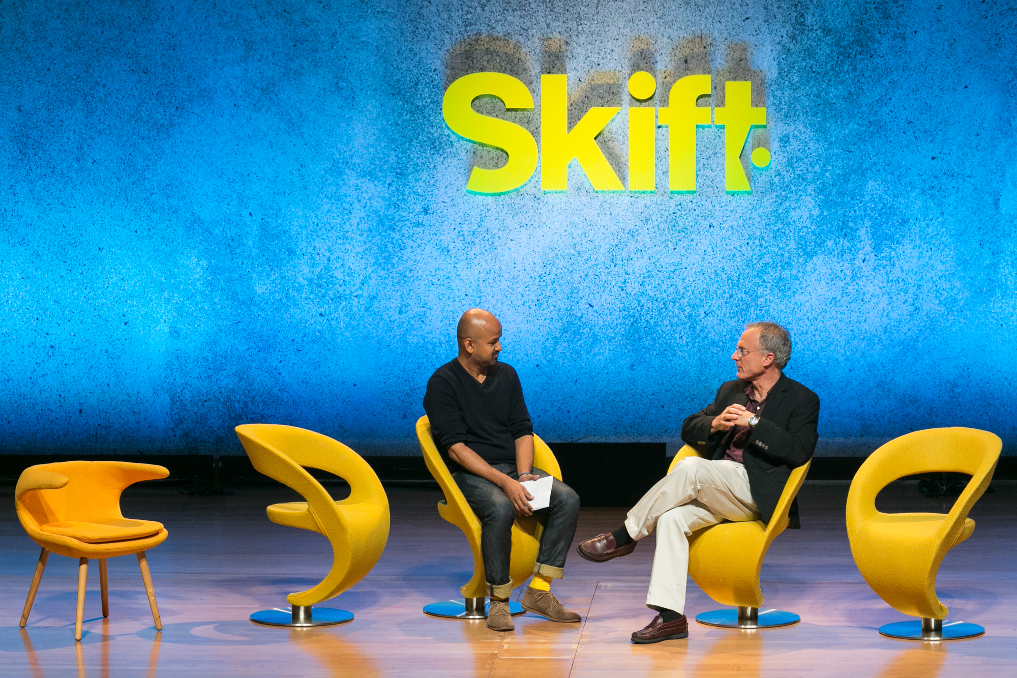 Skift CEO Rafat Ali interviews TripAdvisor CEO Stephen Kaufer on stage at the Skift Global Forum 2016 in New York City.